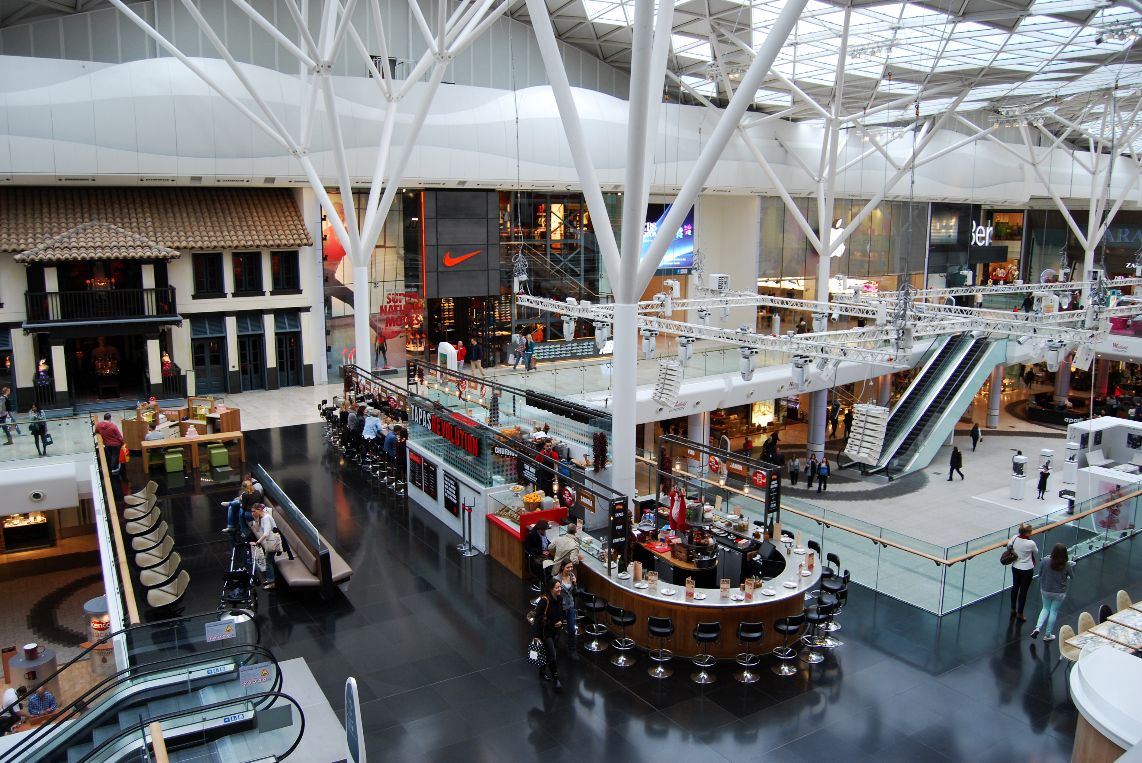 Westfield London